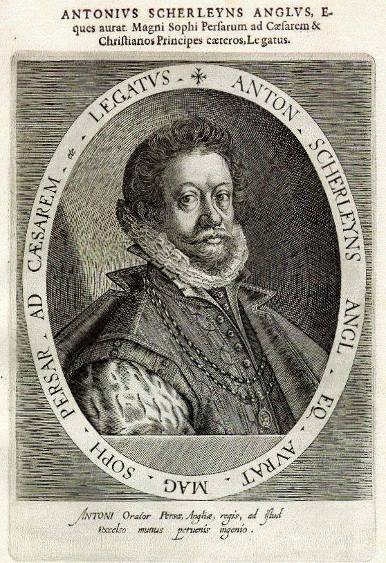 Anthony_Sherley